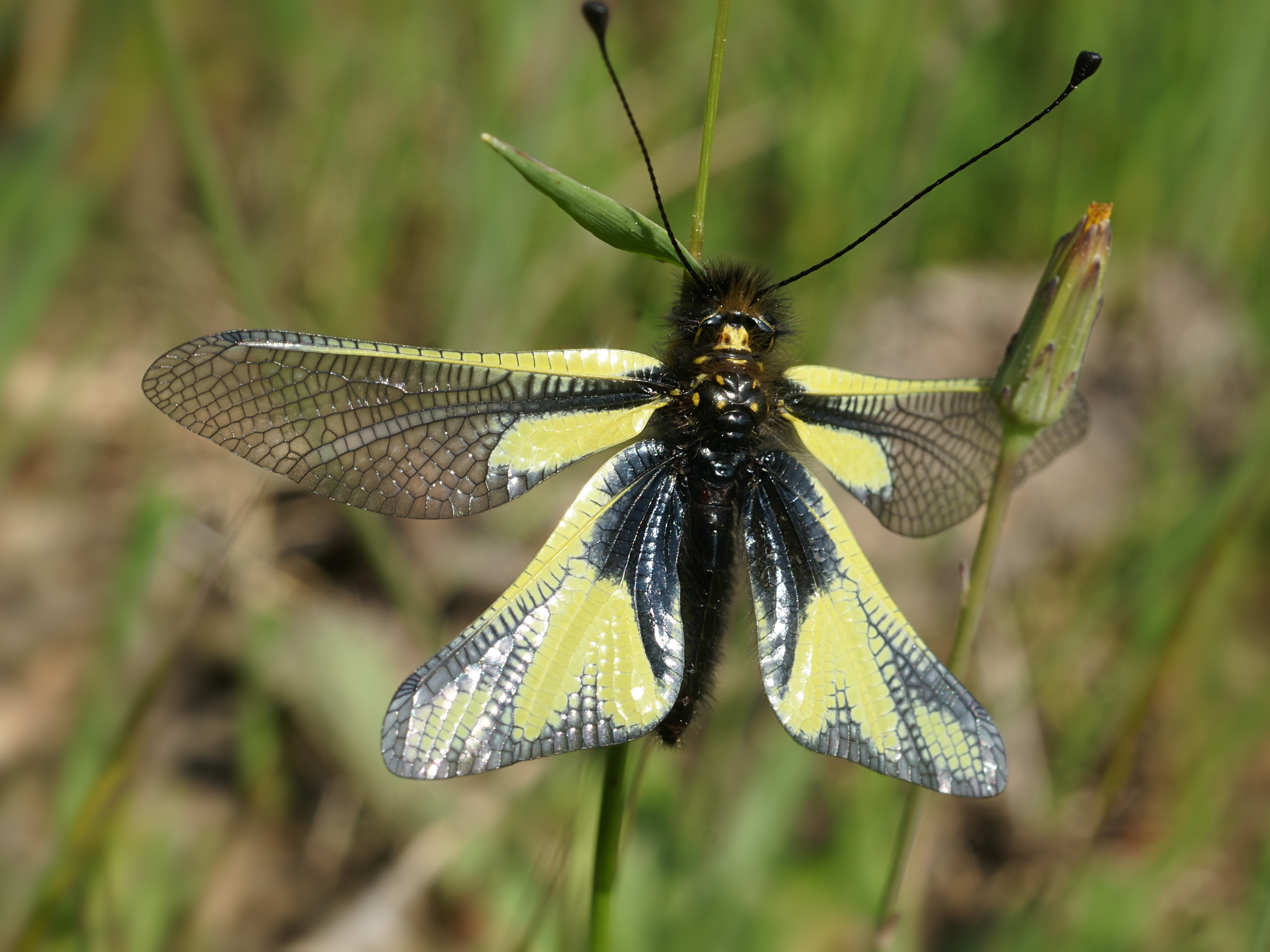 Female Owly Sulphur at Bois du Rouquan, Var, France.